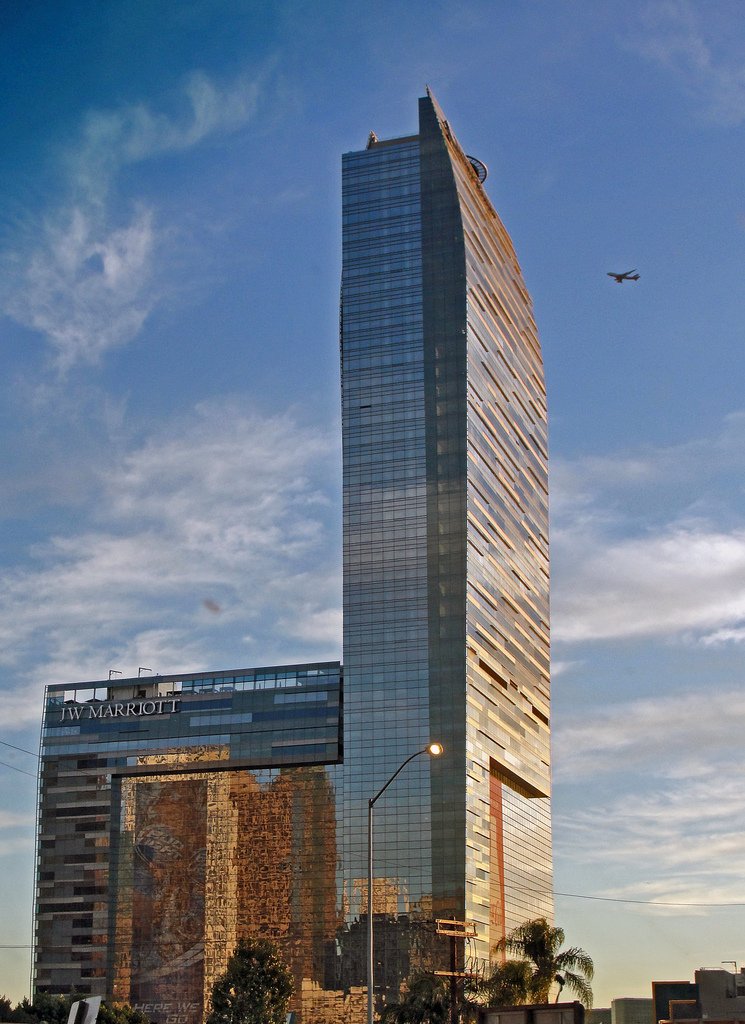 J.W. Marriott Hotel and The Ritz Carlton Hotel & Residences